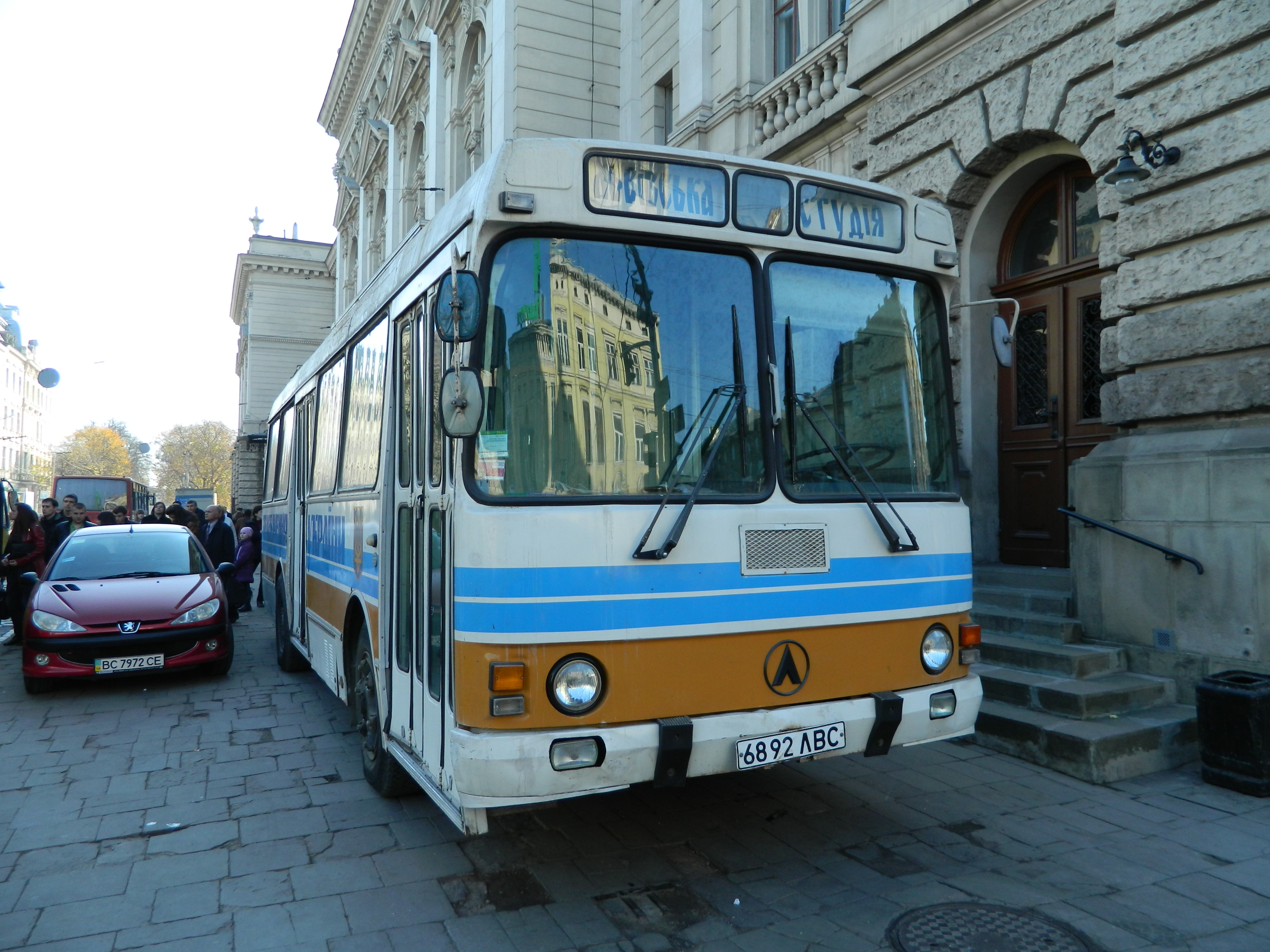 LAZ 42021 city bus (reg. 6892 ...BC) in Lviv, Ukraine. Built appr 1991, Lviv TV studio operator.